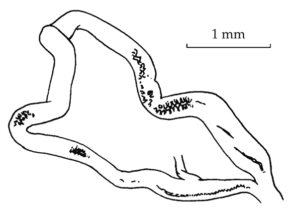 Reproductive system of Oospira (Atractophaedusa) smithi - detail of the penial lumen after a transparent specimen. Locality: Vietnam, Haiphong Province, Cat Ba Island, near entrance of the Trung Trang Cave, 6.iv.2001, 20°47.38'N 106°59.87'E.